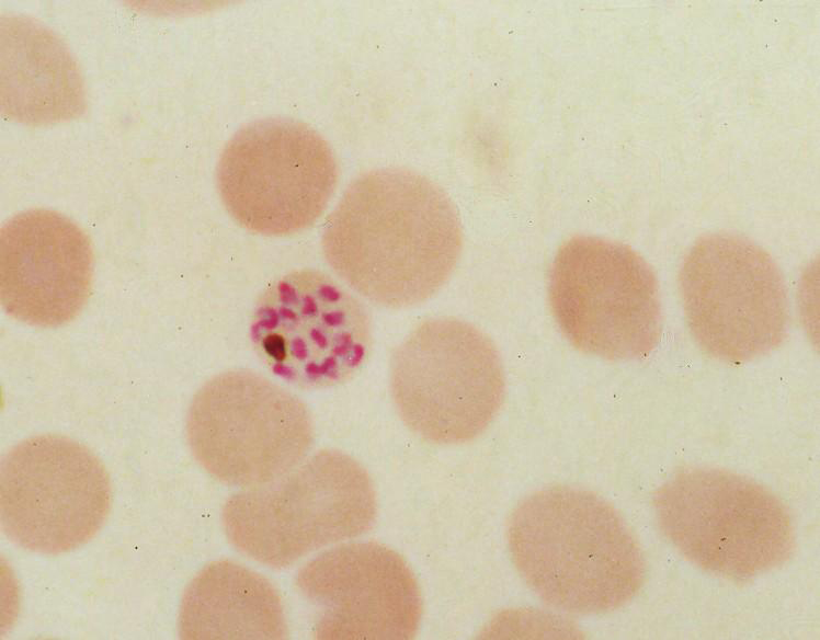 Giemsa-stained Plasmodium falciparum showing the mature schizont stage of the erythrocytic cycle. The hemozoin containing residual body is visible as a brown body.